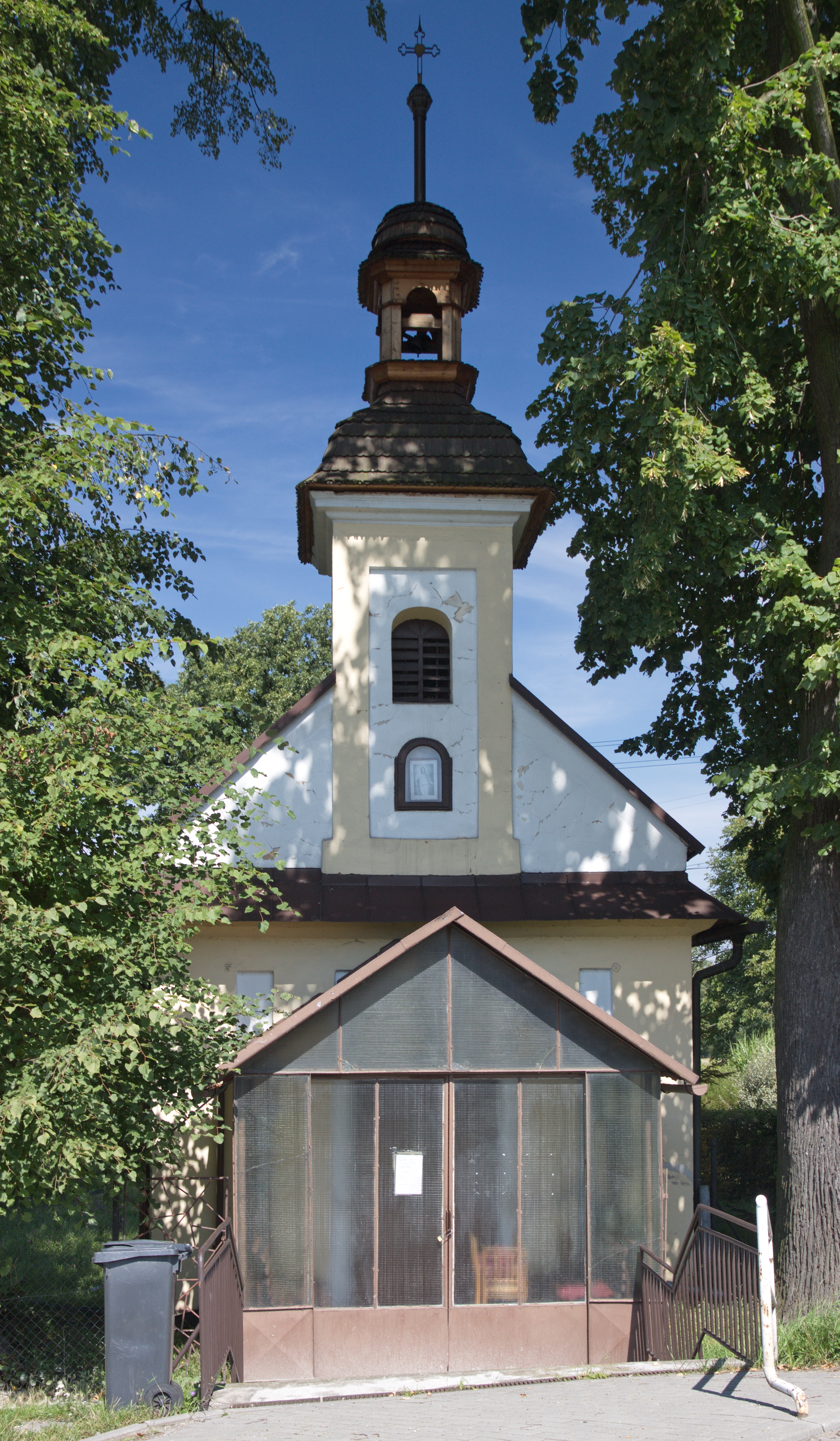 Chapel of St. John of Nepomuk, Závada (Petrovice u Karviné). Moravian-Silesian Region, Czech Republic.